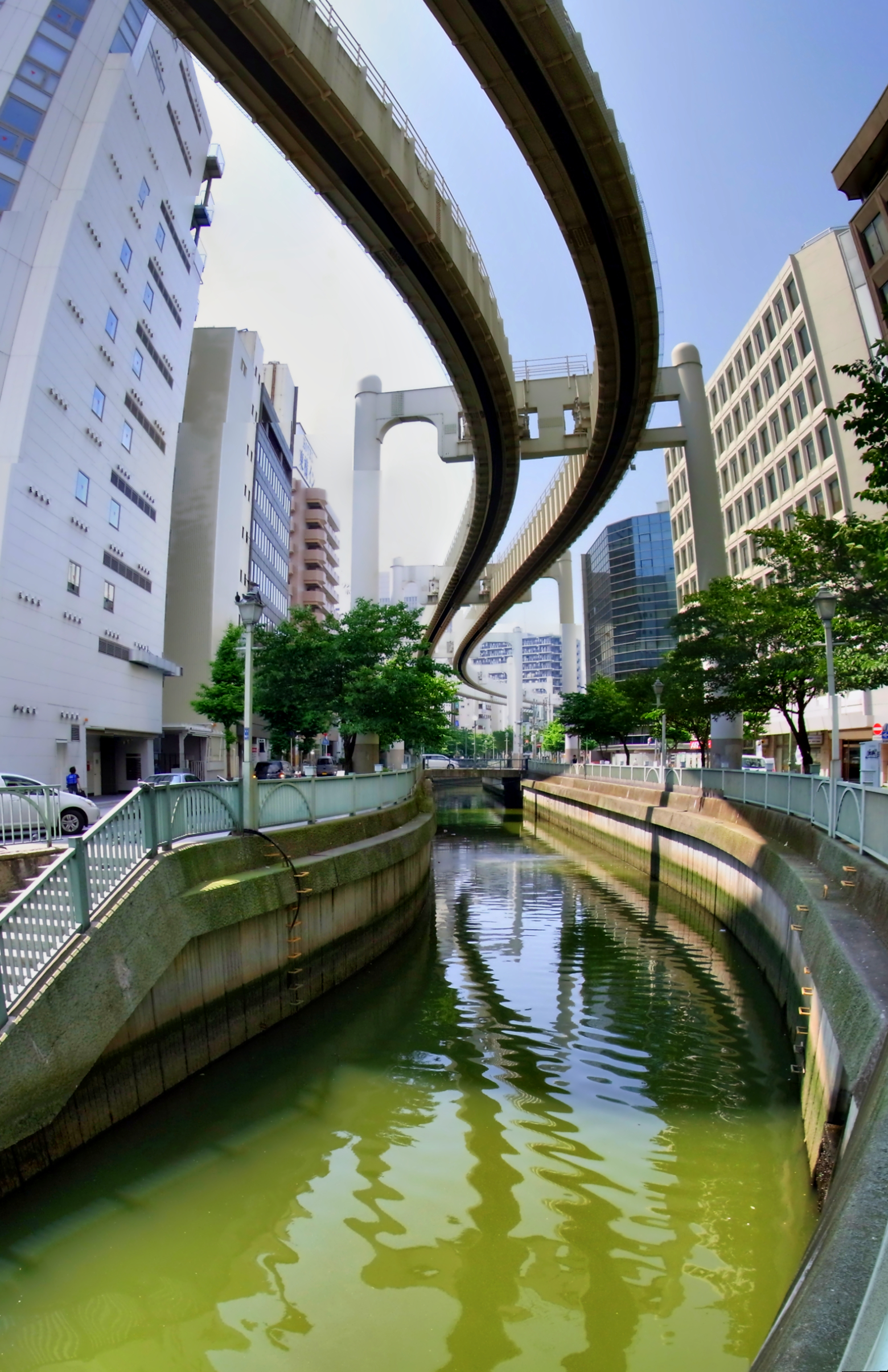 Chiba city Yoshikawa-river 葭川